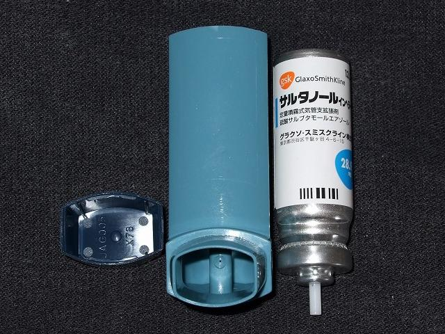 This is a photo of Sultanol and inhaler, or in Japanese, サルタノール インヘラー [sarutanohru inhera-]. This is a prescription drug good for 200 doses.